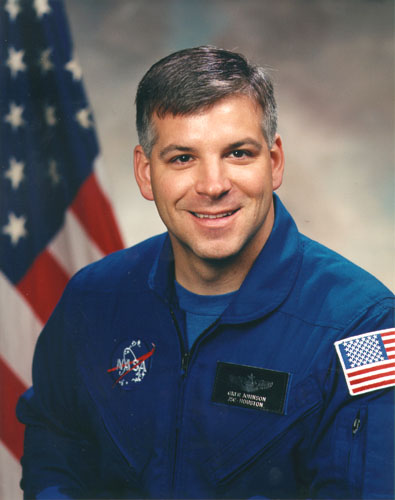 Gregory H. Johnson